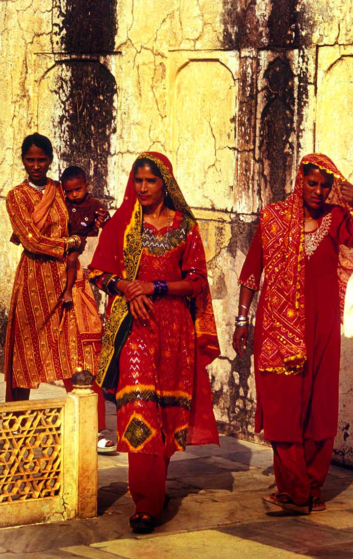 Women in India (Jaipur), traditional dress.